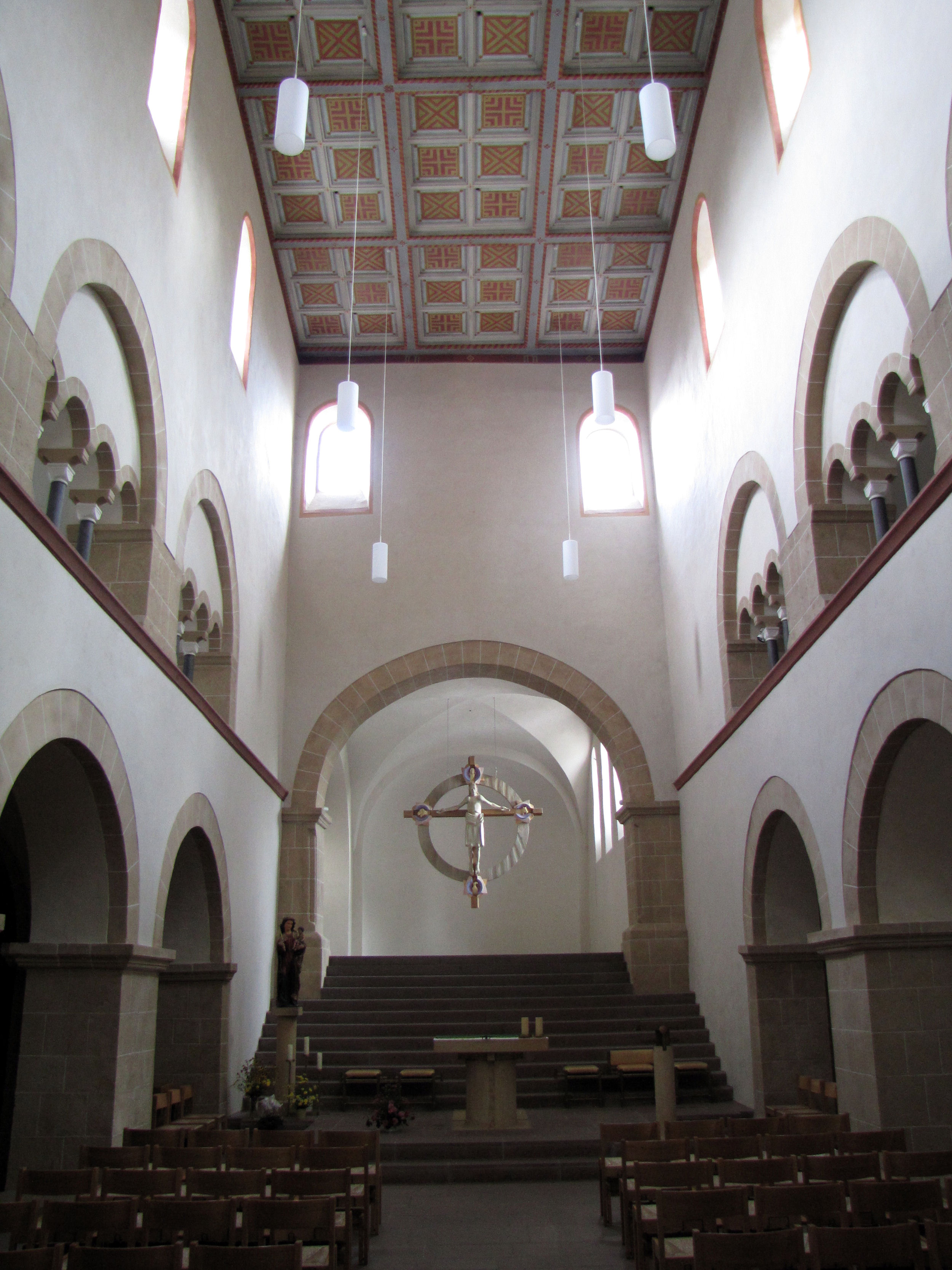 Johannis church in Lahnstein